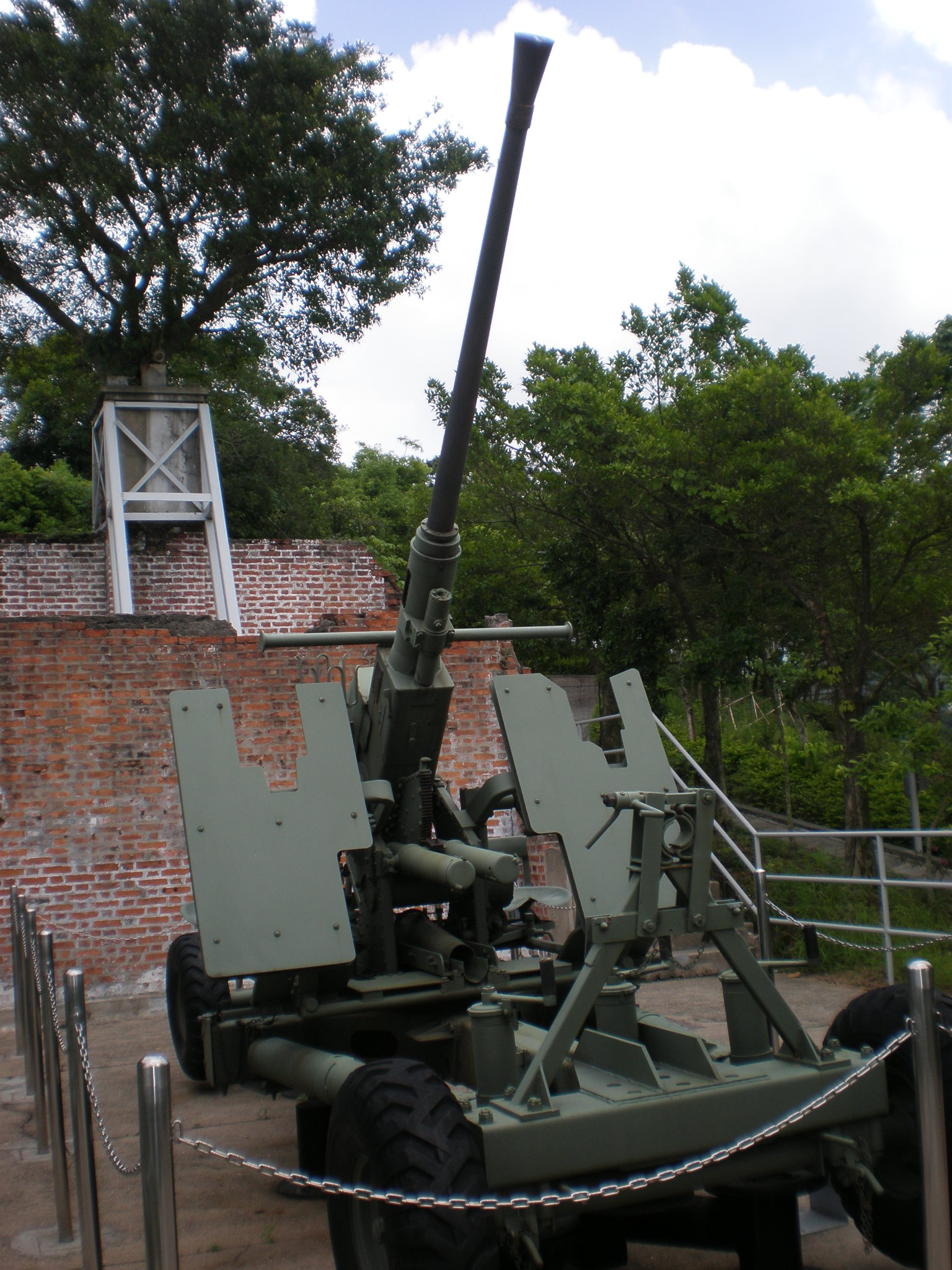 A British Bofors 40 mm gun at Lei Yue Mun Fort. The fort now forms a large part of the Hong Kong Museum of Coastal Defence.